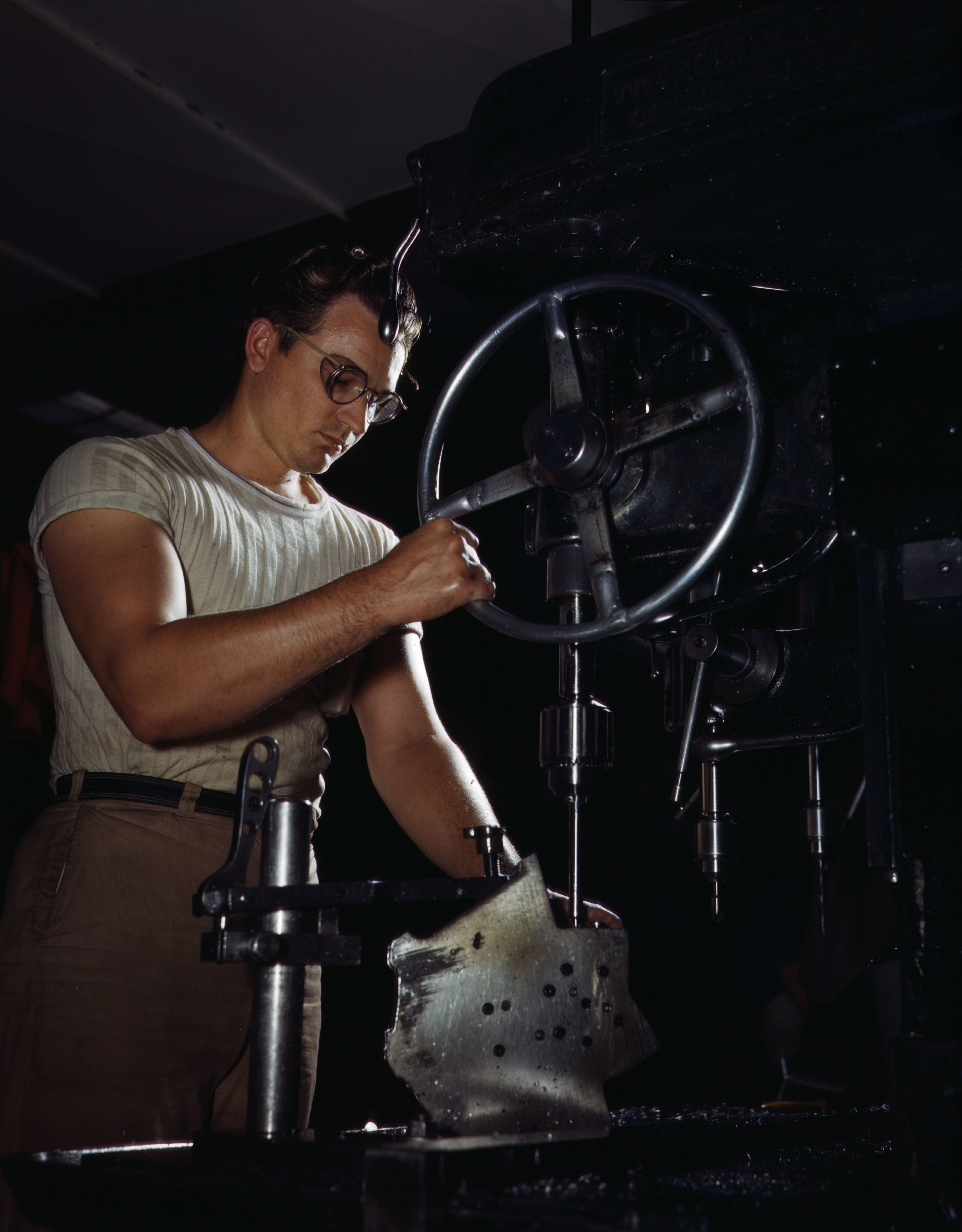 An employee in the drill-press section of North American Aviation's huge machine shop runs mounting holes in a large dural casting, Inglewood, Calif.